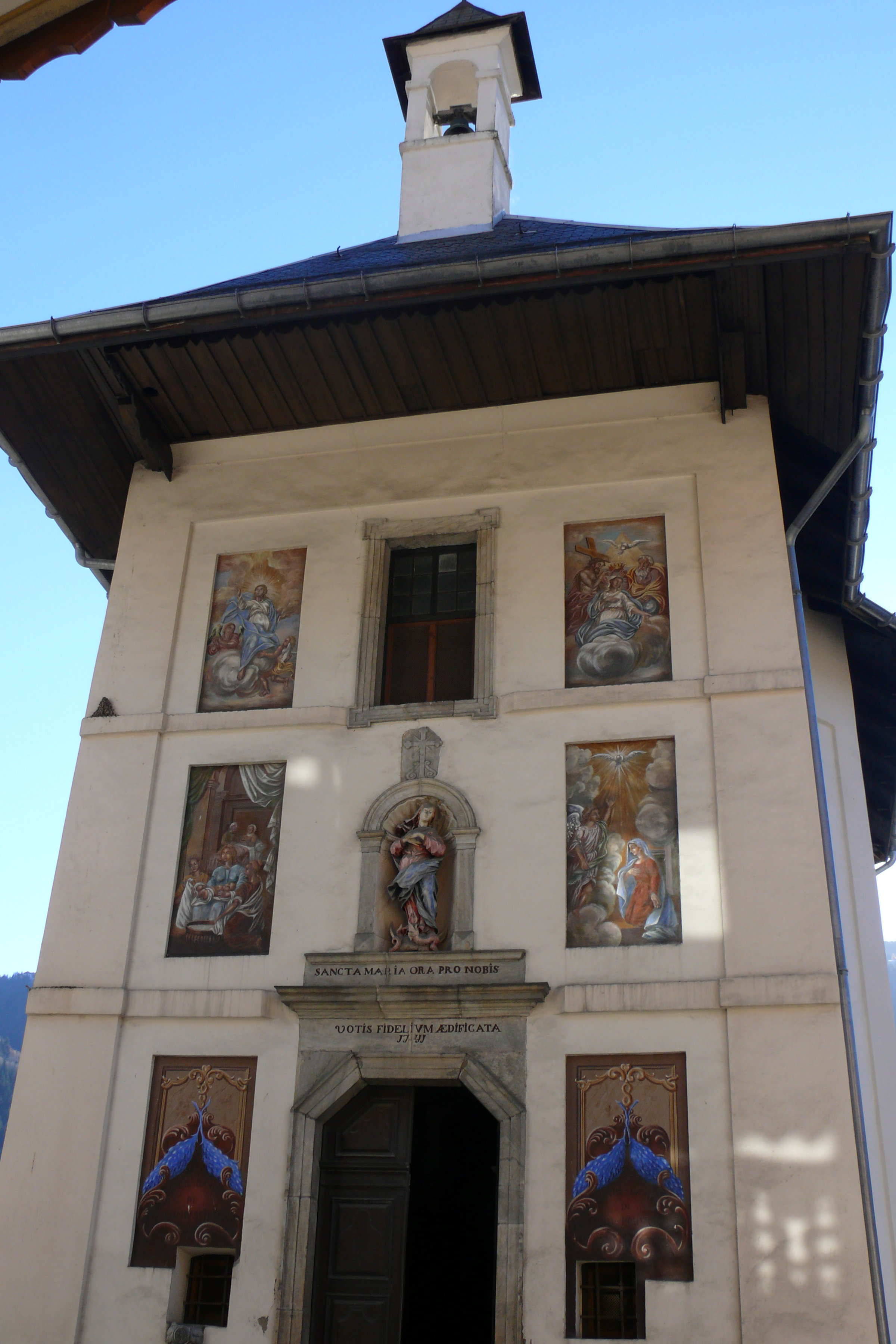 Church in Bozel, ND Tout Pouvoir